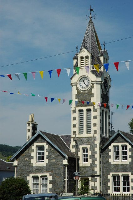 Although the Tower House in Moniaive, Dumfries and Galloway, appears to be a former municipal building, it was designed as a private villa in the late C19th